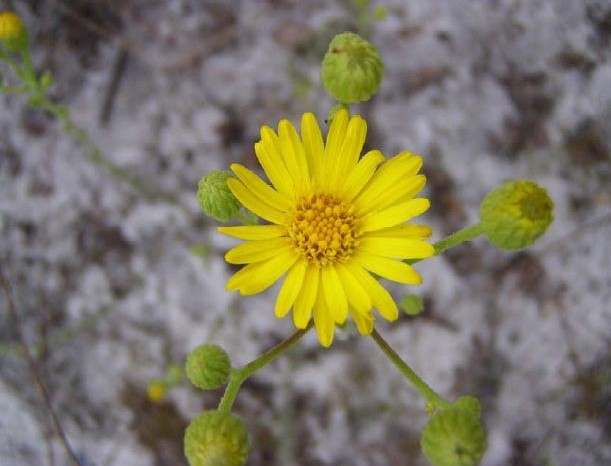 Chrysopsis floridana USFWS photo, no copyright